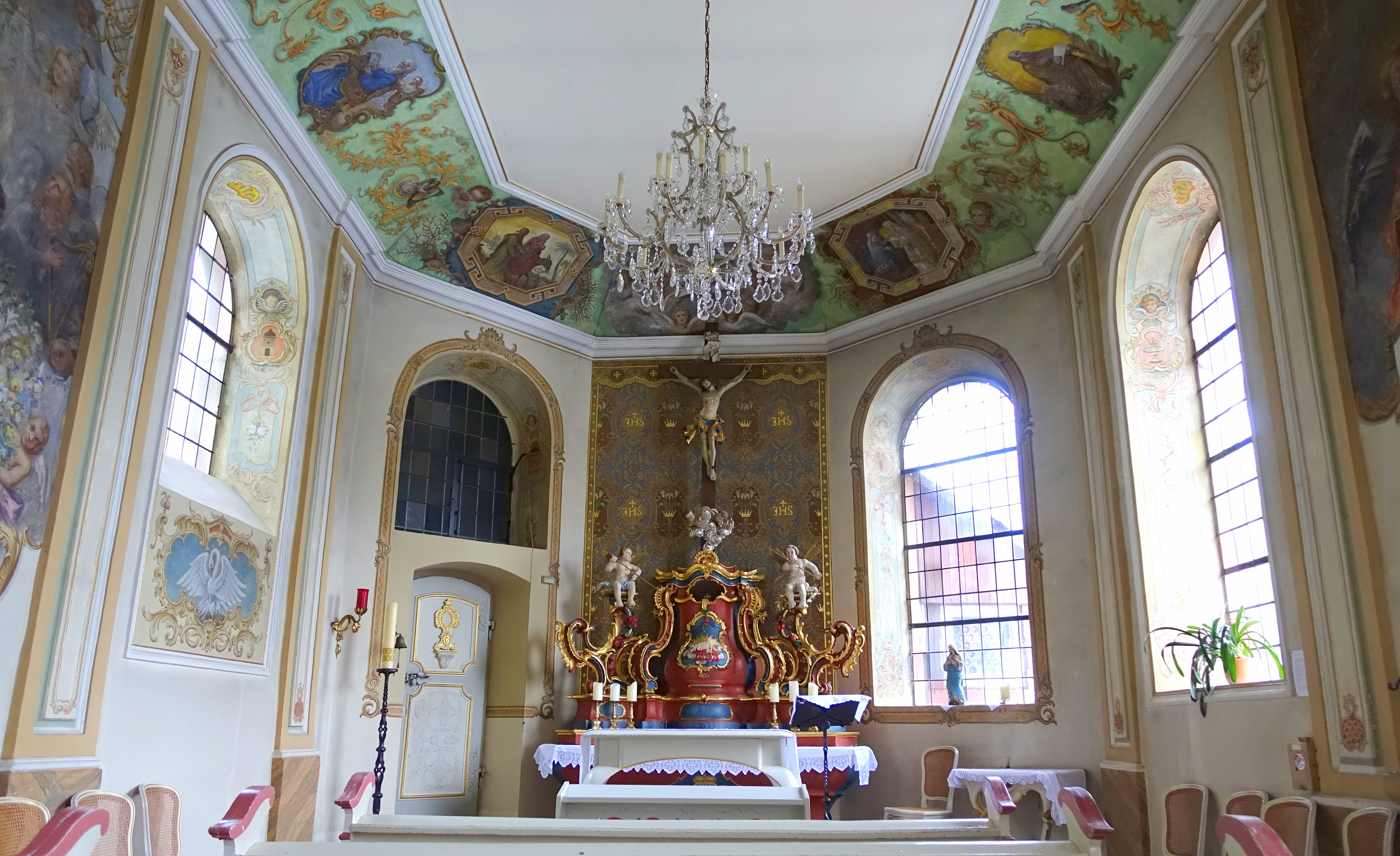 Schloss Dagstuhl, Saarland, Germany. All artwork is old enough so that it is in the public domain.